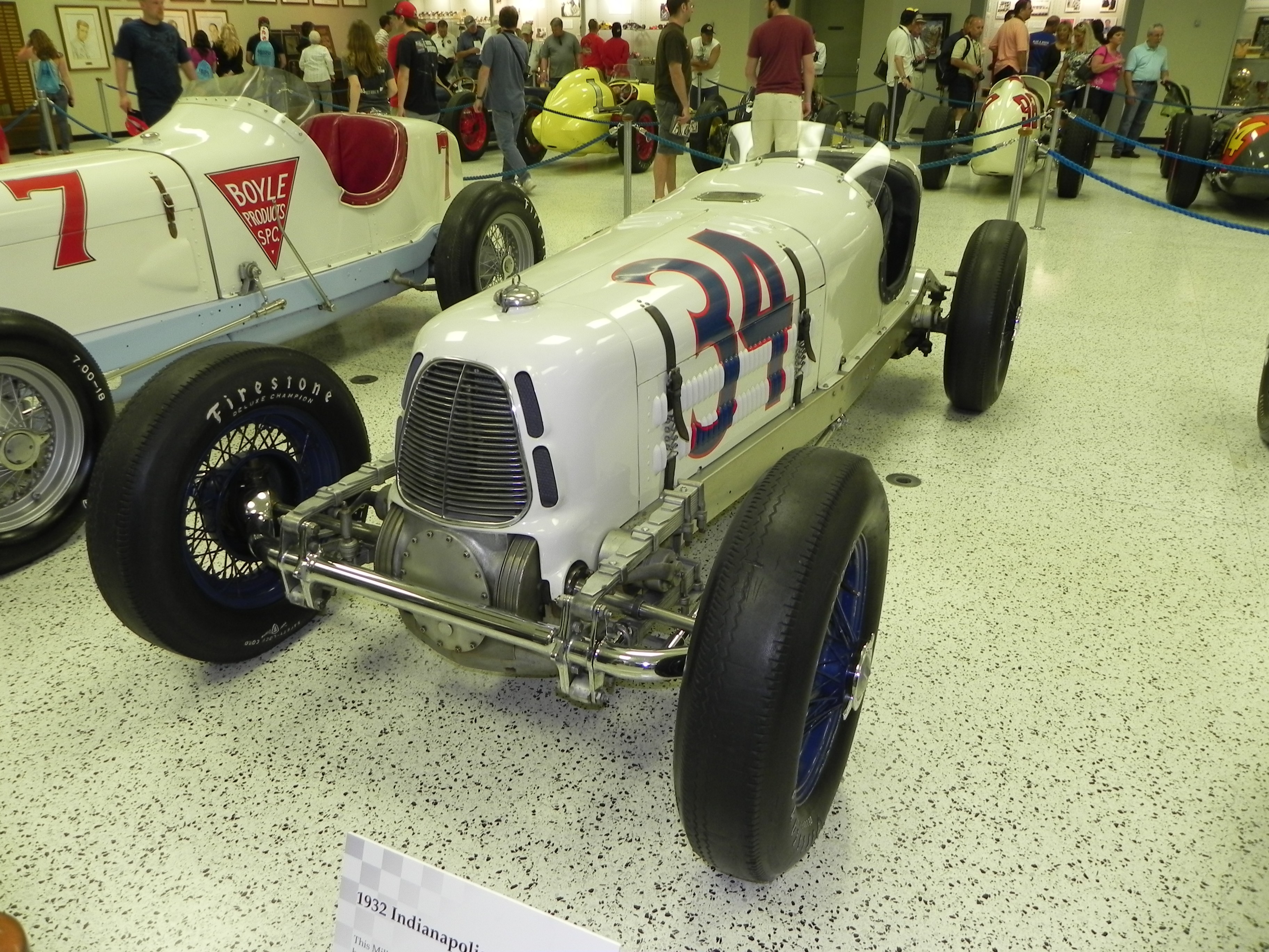 Image of the winning car of the 1932 Indianapolis 500 (Fred Frame). Photo was taken at the Indianapolis Motor Speedway Hall of Fame Museum, during the month of May 2011, at the 100th Anniversary "Ultimate Indianapolis 500 Winning Car Collection."